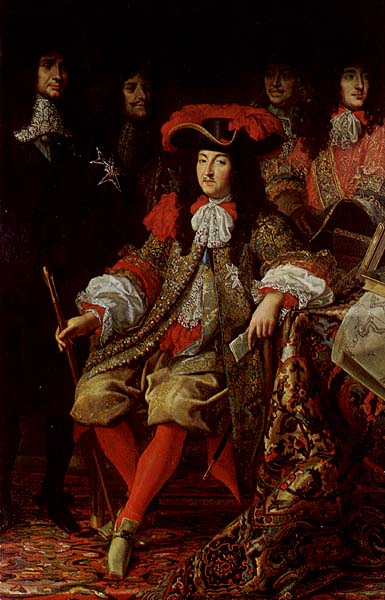 Jean-Baptiste Colbert (1619-83) Presenting the Members of the Royal Academy of Science to Louis XIV (1638-1715)